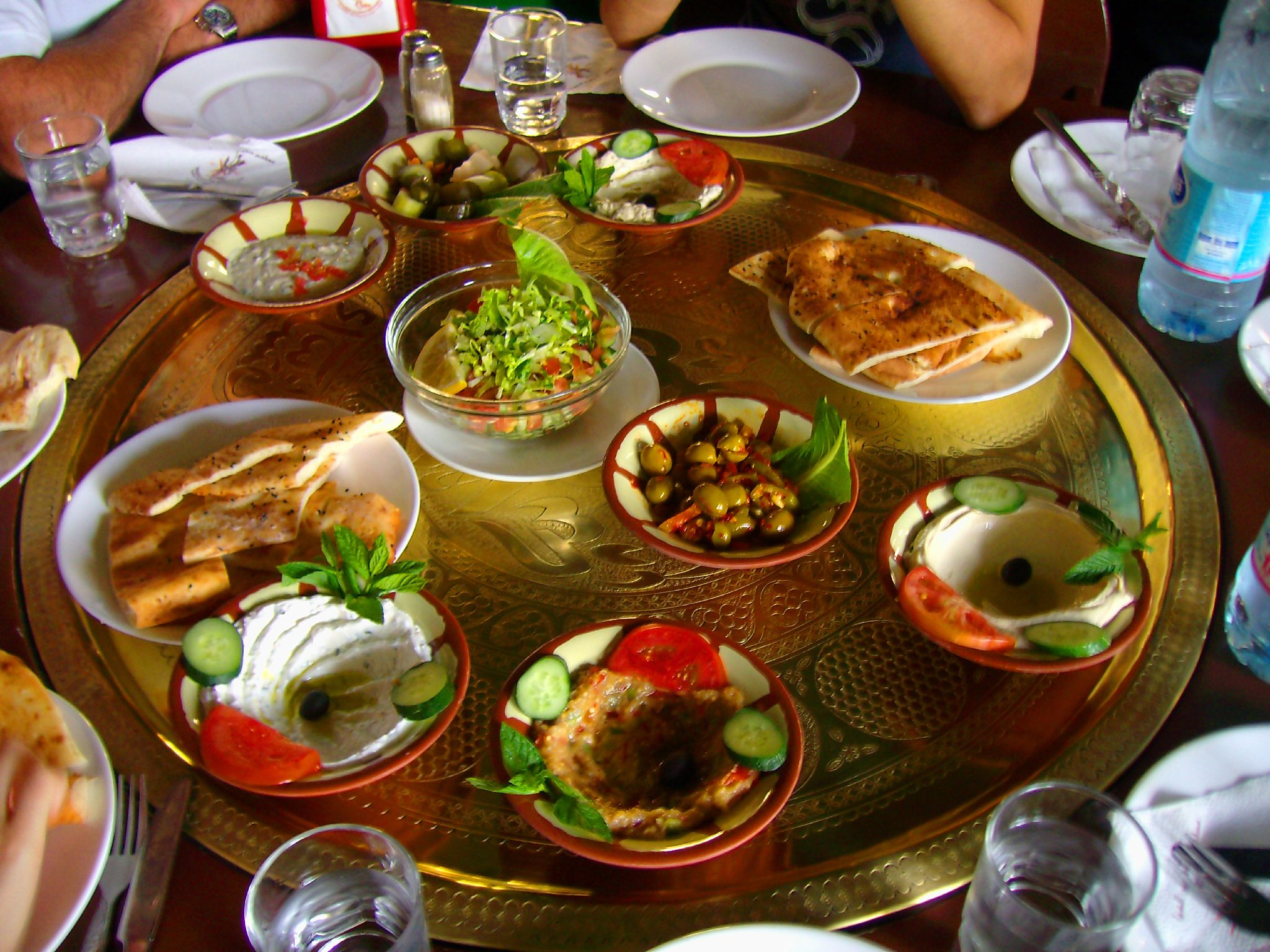 A large plate of Mezes (Metzes) in Petra, Jordan.